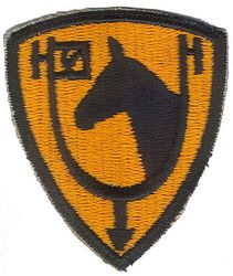 61st Cavalry Division shoulder sleeve insignia